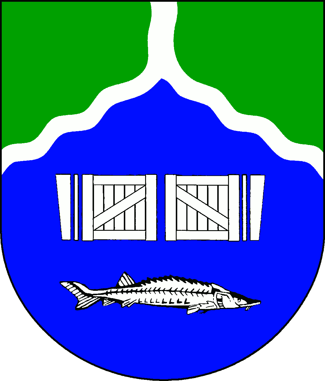 Coat of arms of the municipality Bekmünde in Schleswig-Holstein, Germany.